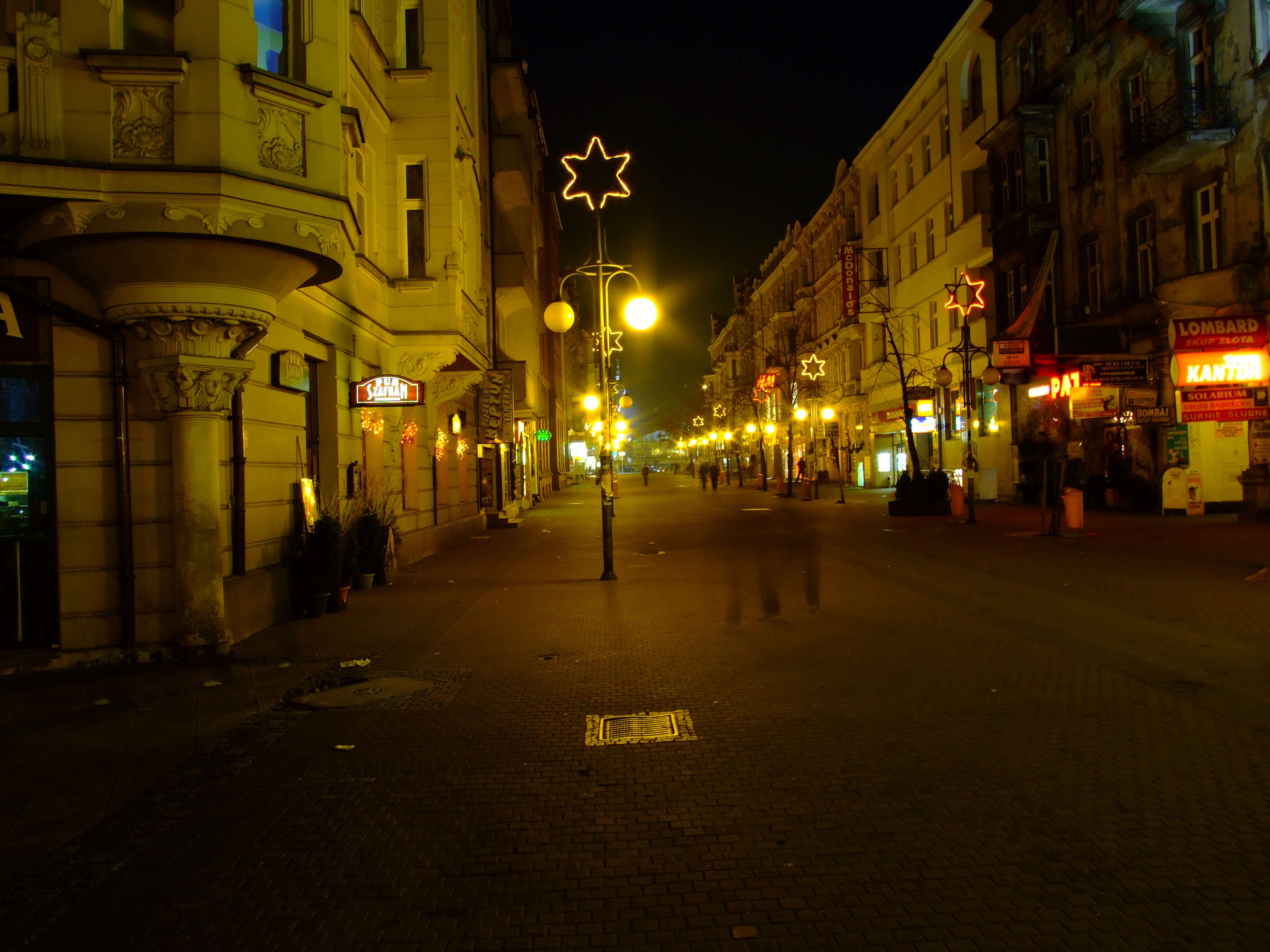 Stawowa street in center of the city of Katowice, Silesian Voivodship, Polandhelp